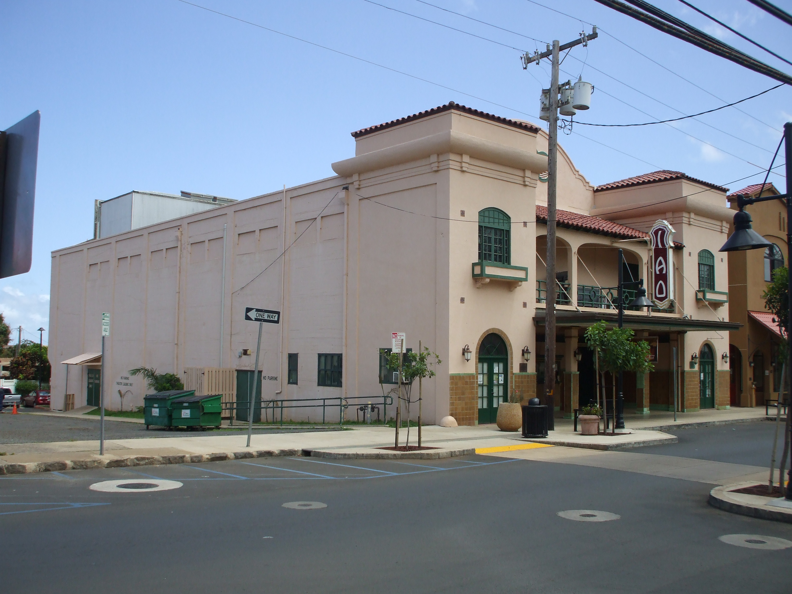 Iao Theater front, after improvements to Market Street. Traffic calming devices and a loading zone in front of theater have been added. Compare to the nearly same scene from 2007.